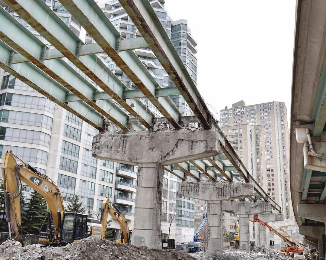 It's just one off ramp, but it does make you wonder how the city would change, and mature, if the whole damn thing came down. #igerstoronto #gardinerexpressway #infrastructure